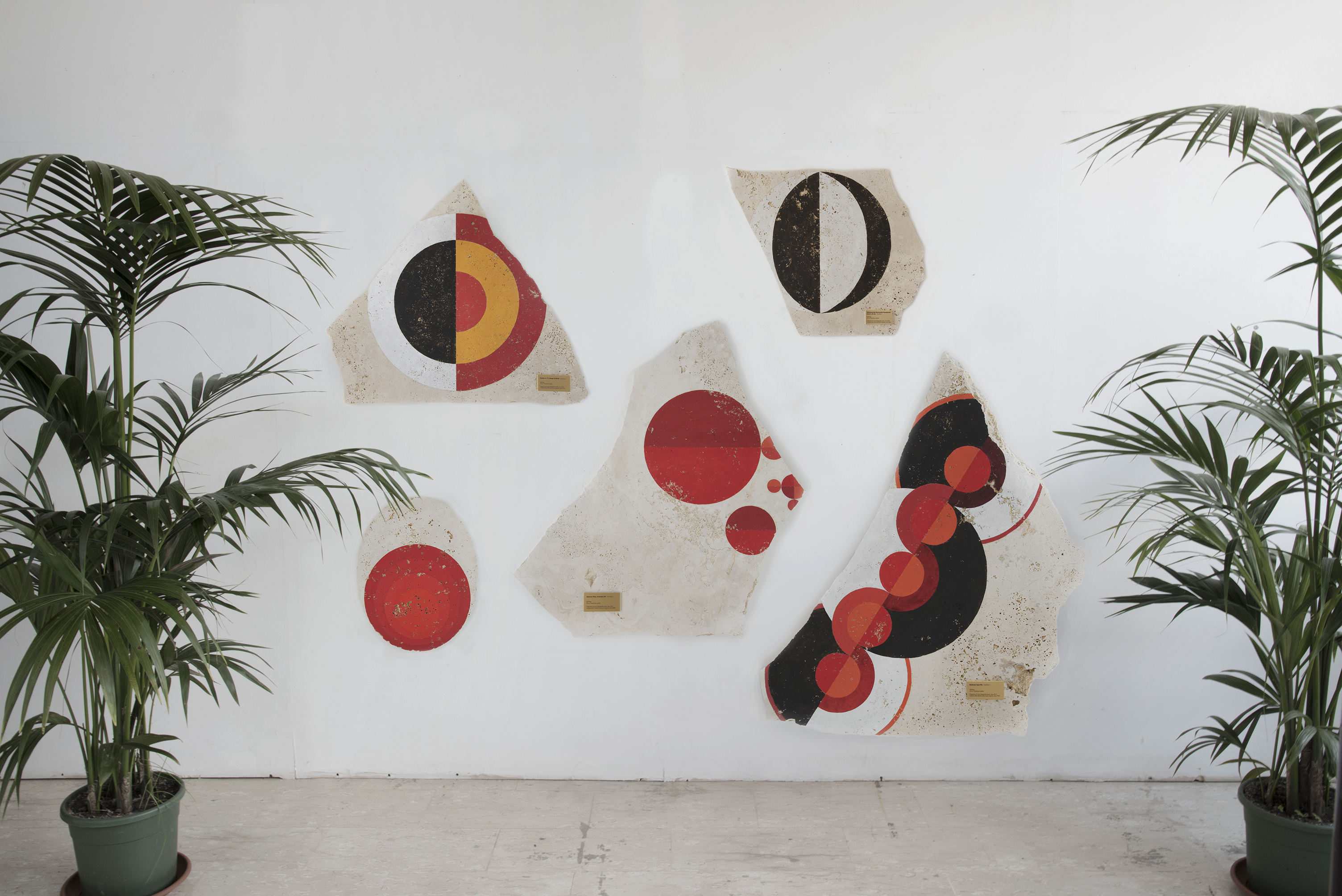 Archaeology of Aesthetics, Artworks that are resignifications of other artworks